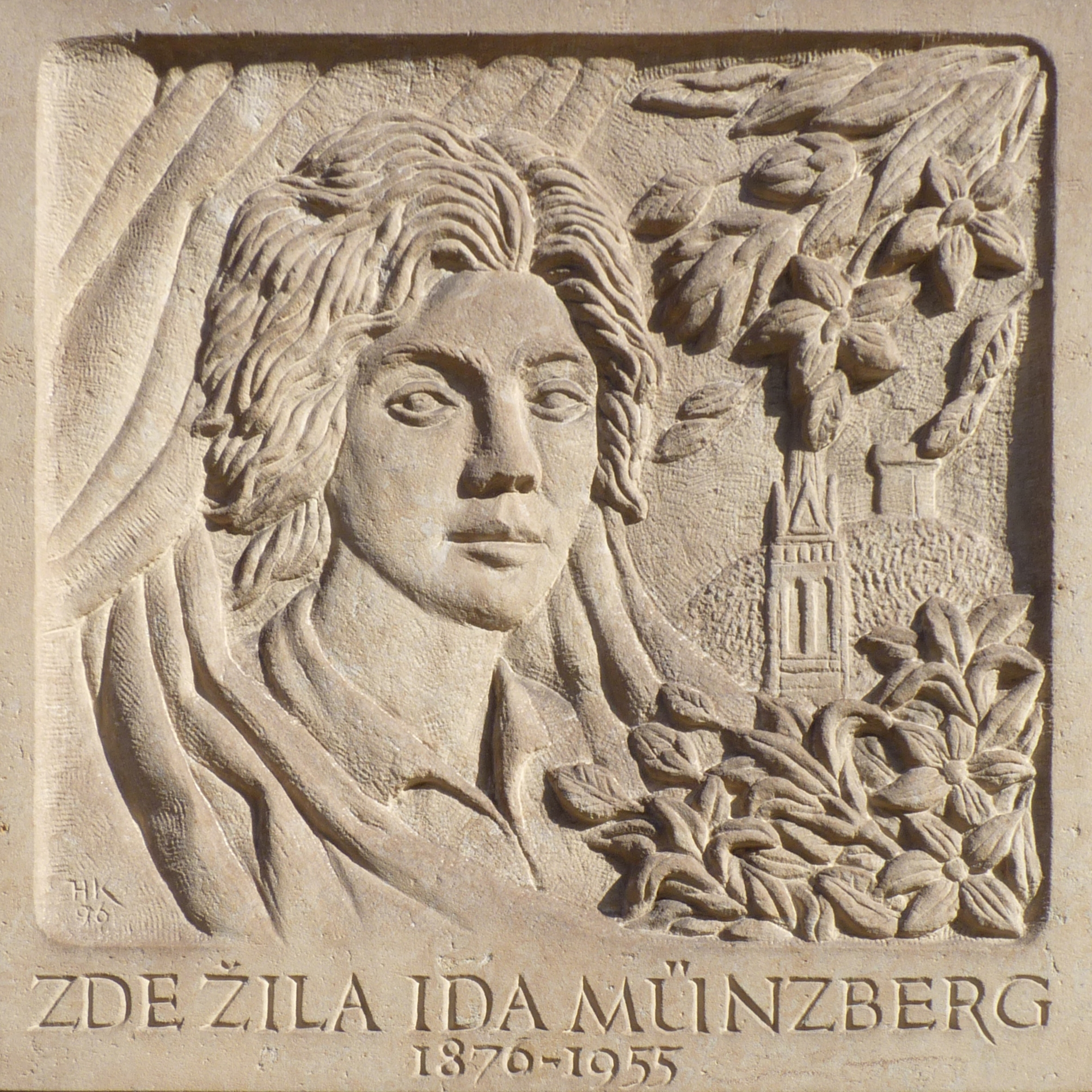 Plaque dedicated to Ida Münzberg in Czech Cieszyn, Czech Republic